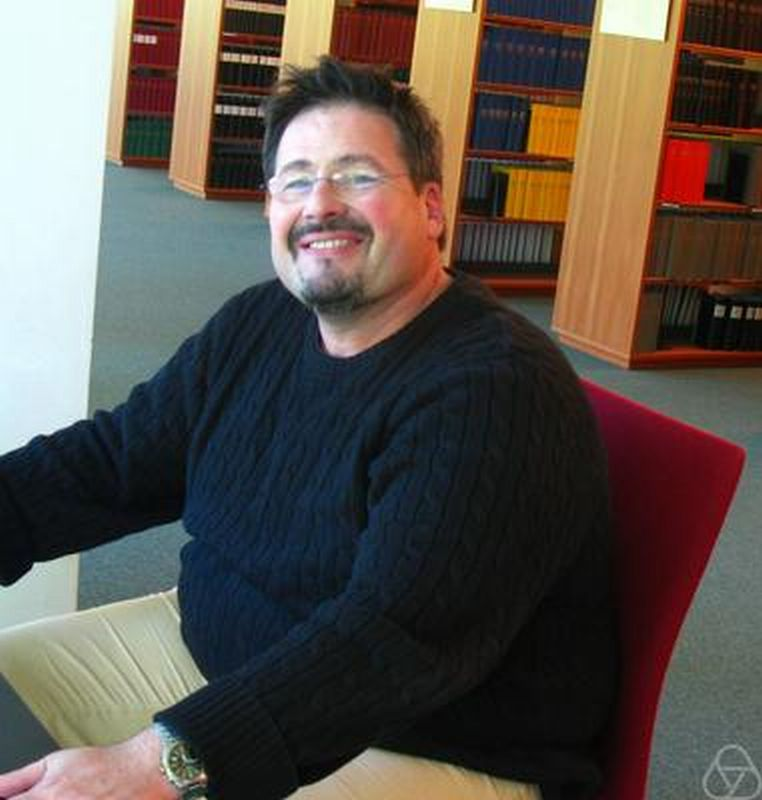 Ludmil Katzarkov, Oberwolfach 2010